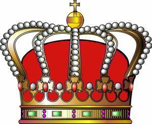 kings crown- hraldry